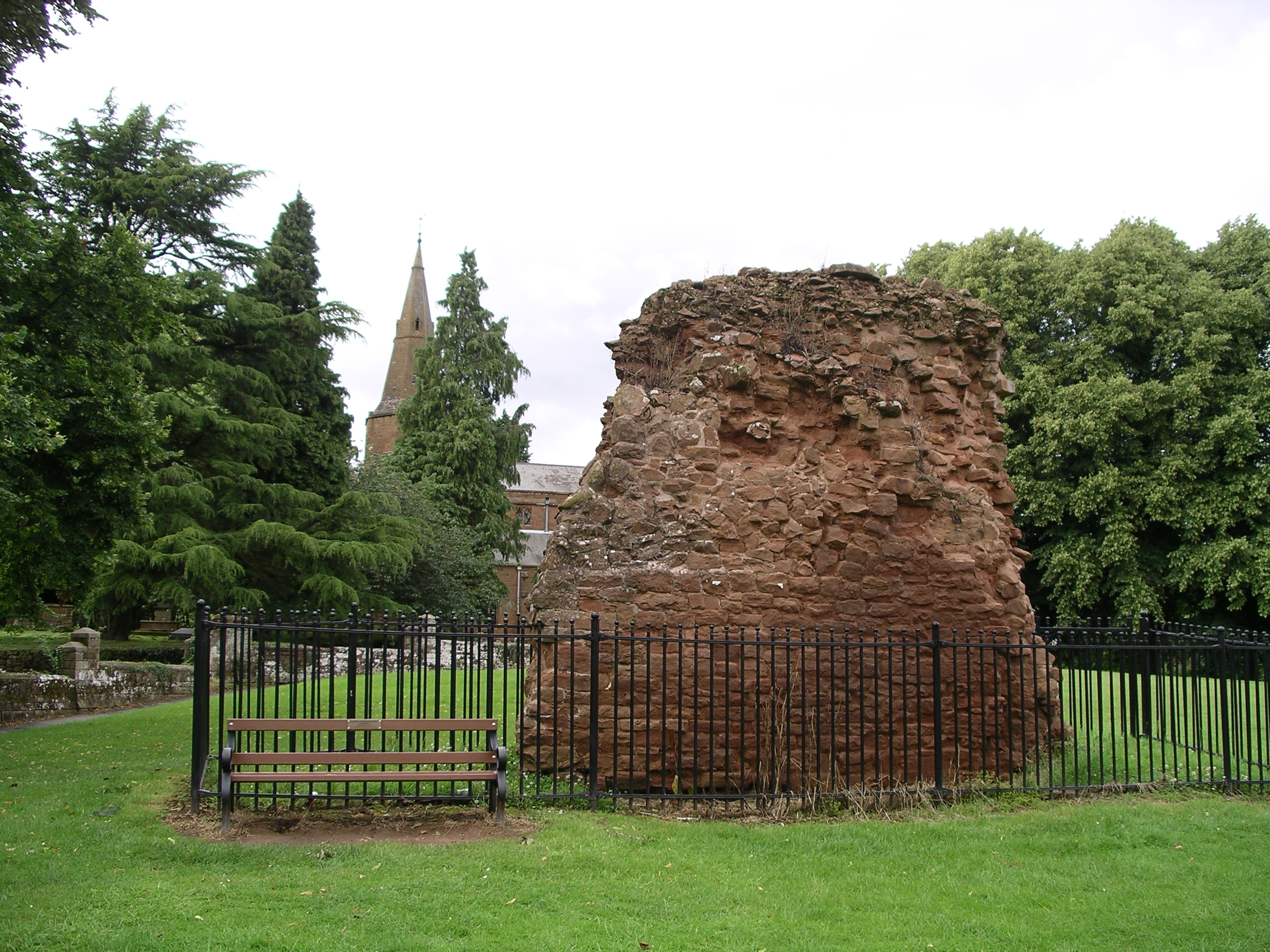 Photo of the remains of an ancient wall in Kenilworth Fields, Kenilworth, England